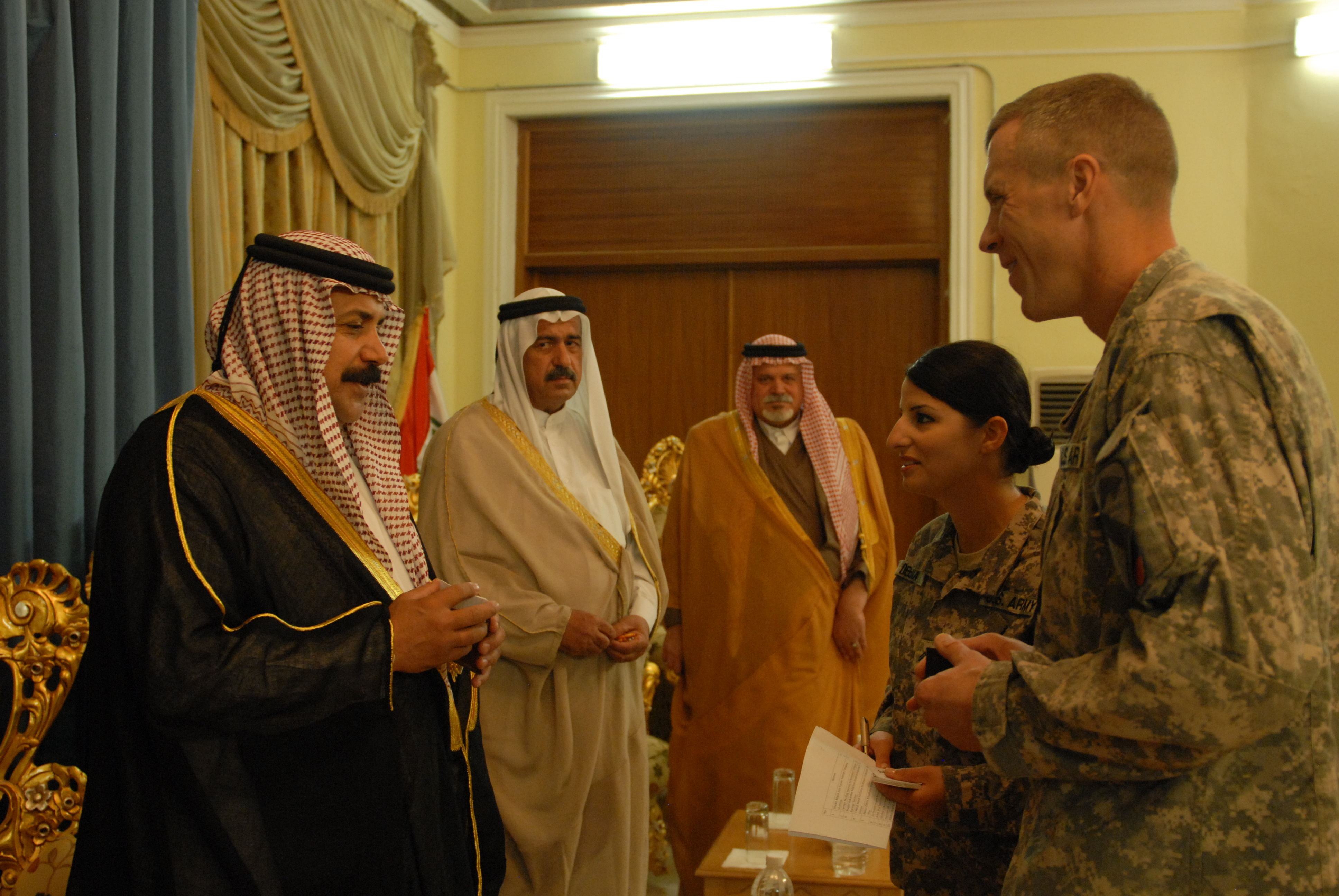 Col. Scott Efflandt (right), commander of 1st Brigade, 1st Cavalry Division, meets with sheiks from the southern and central provinces of Iraq to discuss the future of Iraq, Oct. 19. The sheiks are primarily concerned with their safety and influence in the Iraqi government after U.S. forces depart Iraq at the end of the year.